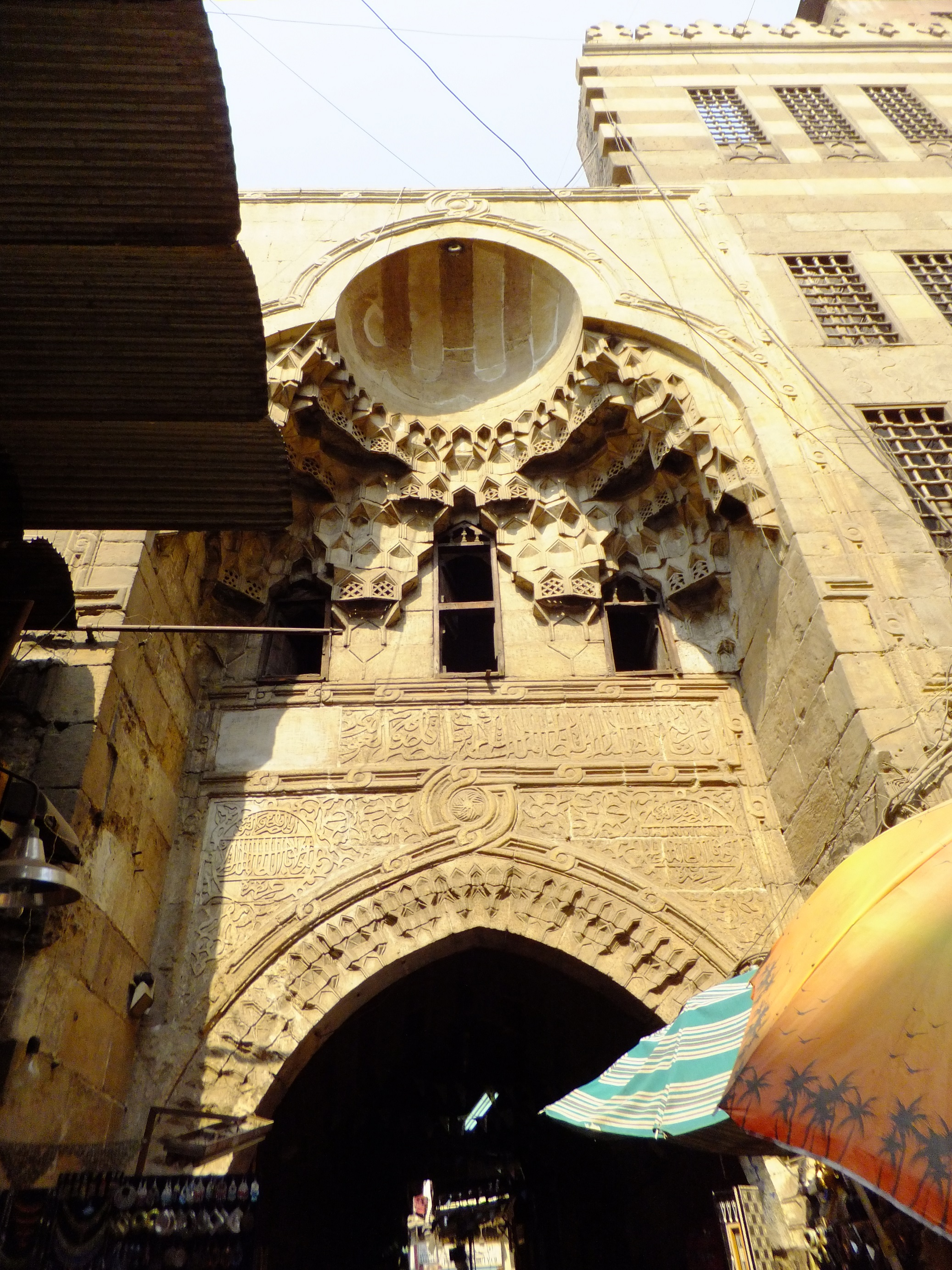 The gate and remains of the Wikala al-Qutn, built by Sultan al-Ghuri in 1511, in Khan al-Khalili.